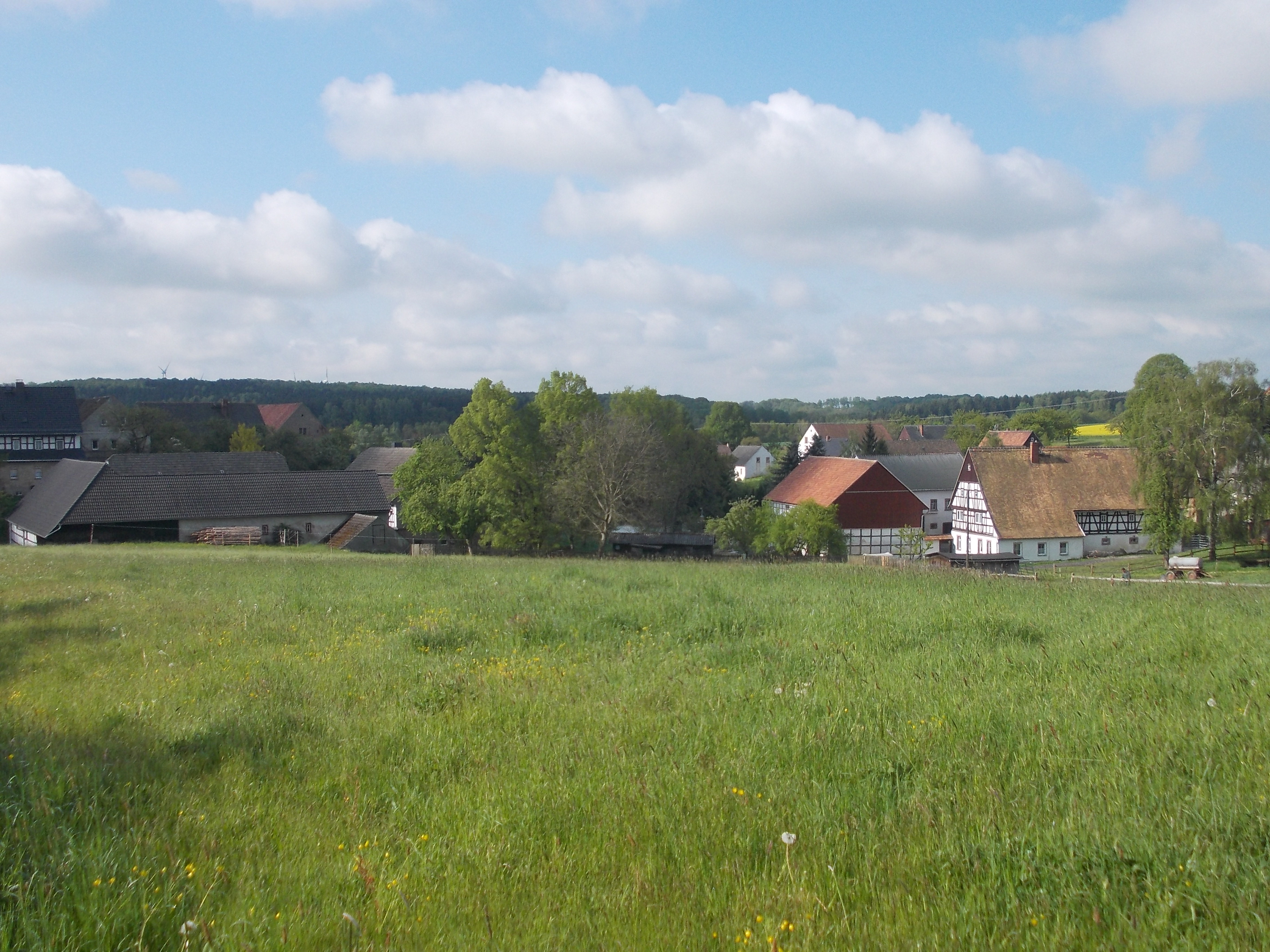 View of the village of Dölitzsch (Narsdorf, Leipzig district, Saxony)